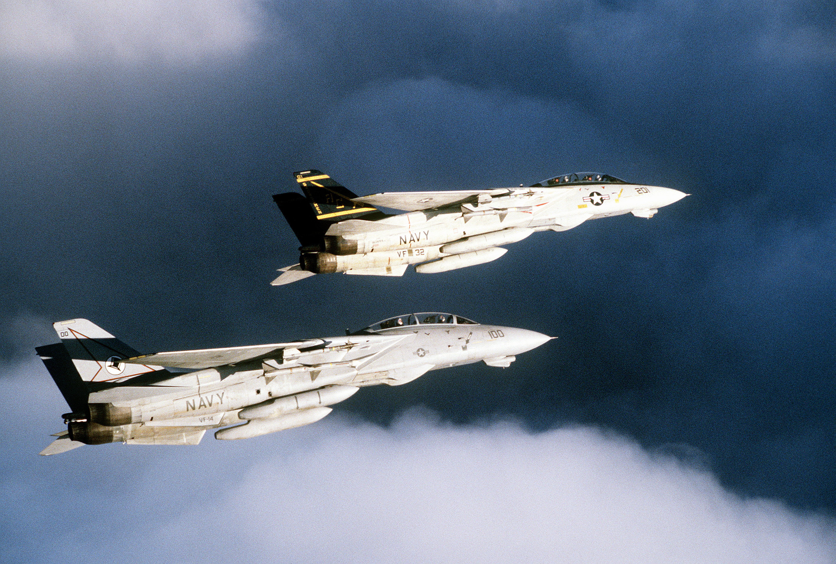 An air-to-air right side view of a Fighter Squadron 32 (VF-32) F-14A Tomcat aircraft and a Fighter Squadron 14 (VF-14) F-14A Tomcat aircraft on patrol during exercise Deterrent Force 2/90, a part of Operation Desert Shield. Both planes are attached to Carrier Air Wing Three, embarked on the aircraft carrier USS John F. Kennedy (CV-67)